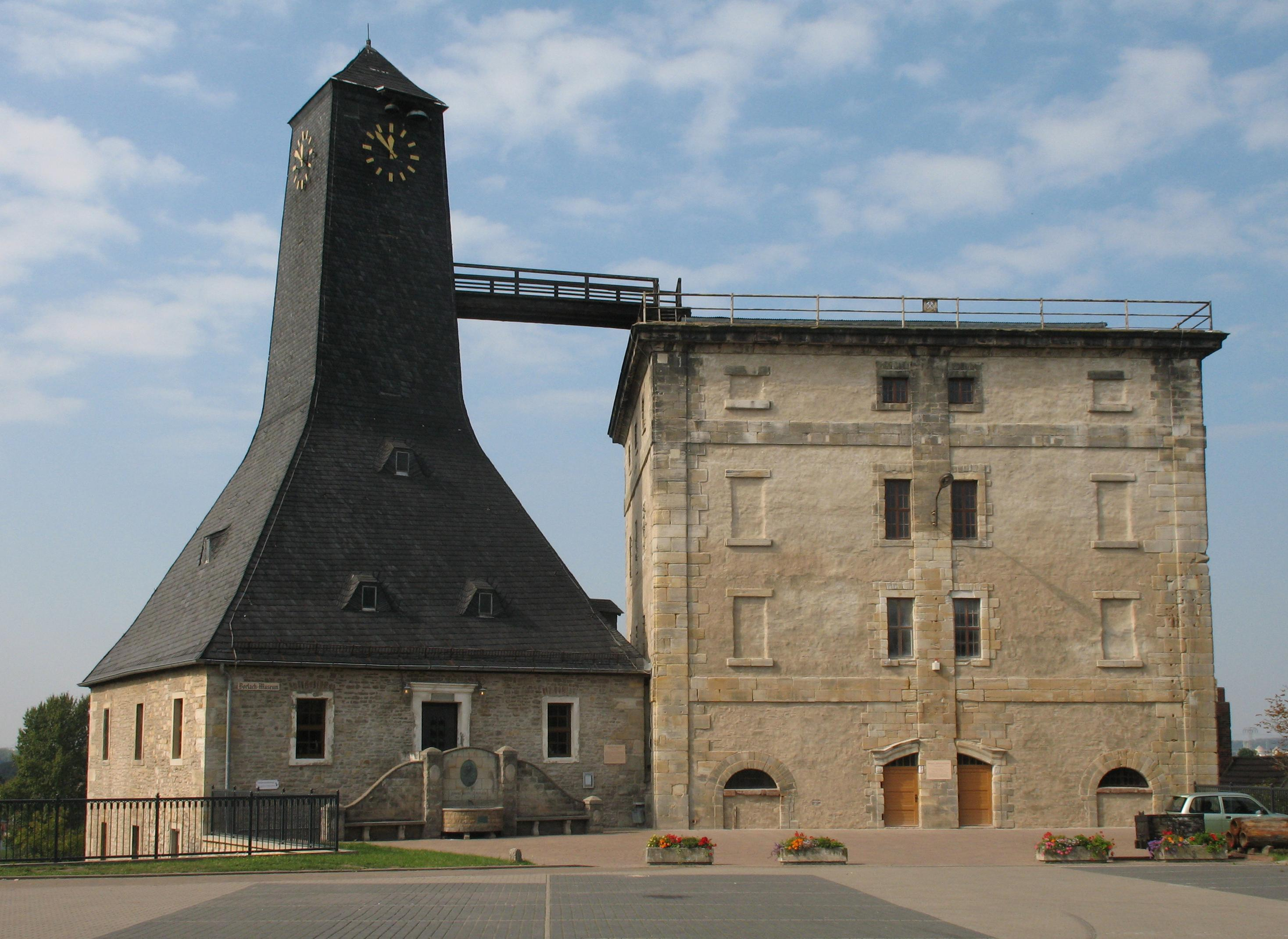 Borlach tower and Witzleben tower in Bad Dürrenberg in Saxony-Anhalt, Germany